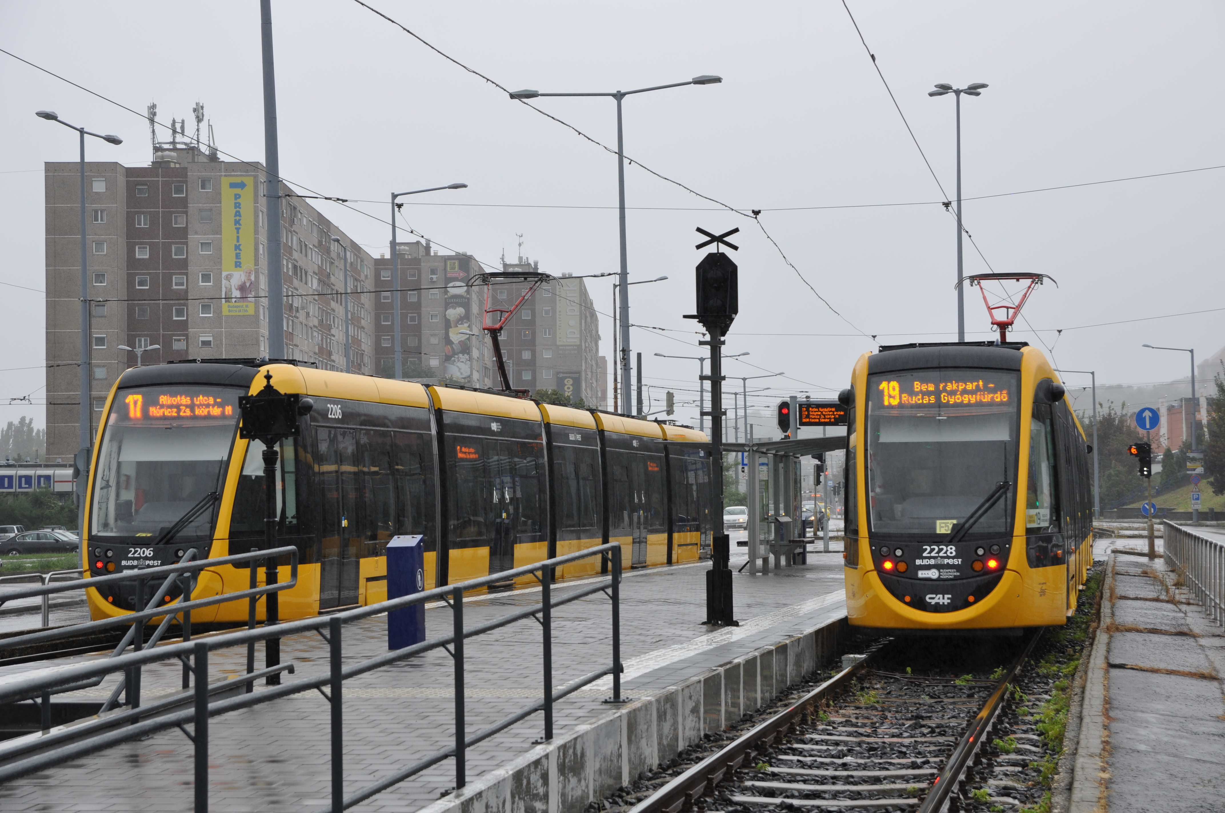 Budapest, Vörösvári út